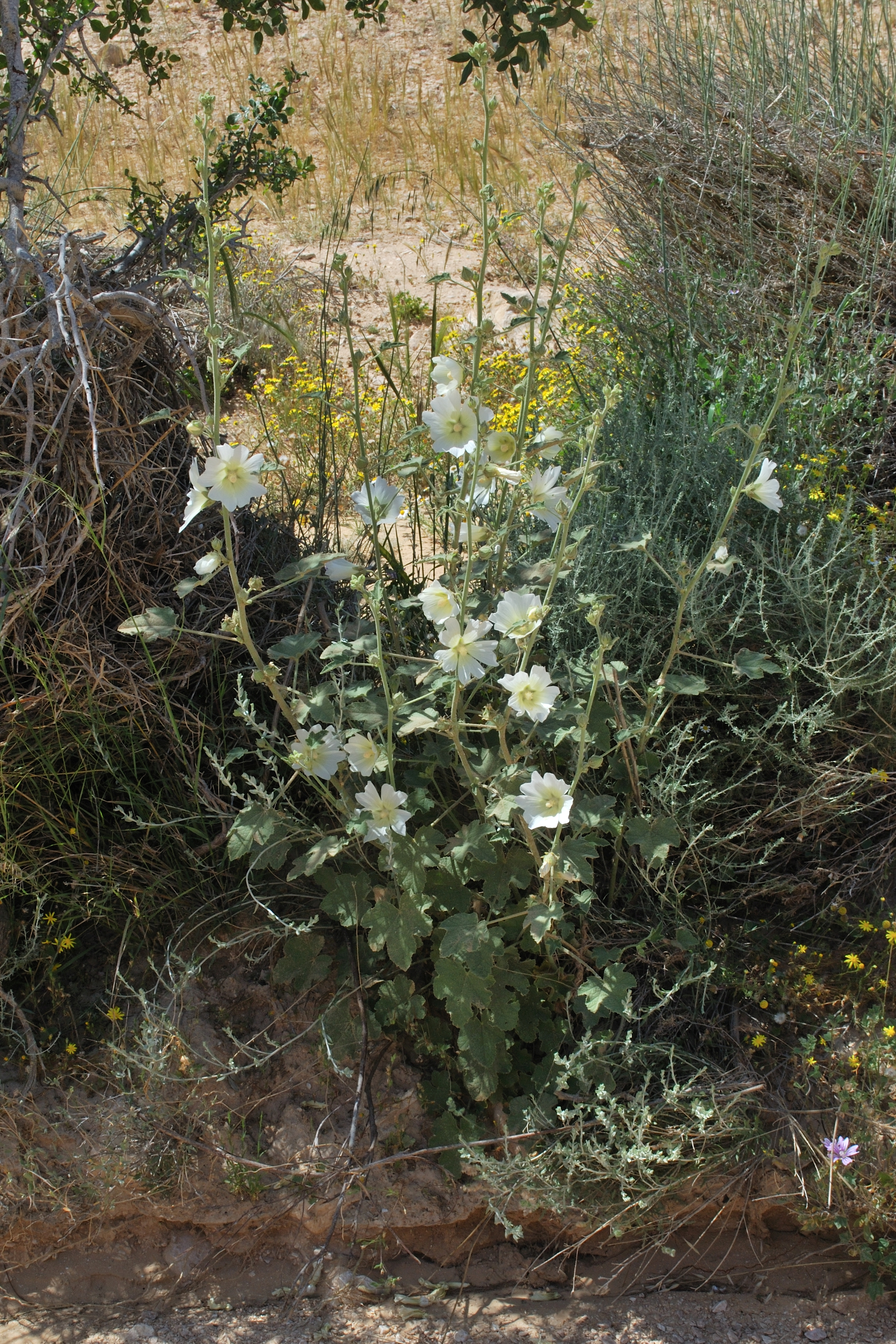 Alcea striata (DC.) Alef., April 17 2010, Negev Mountains, Israel.